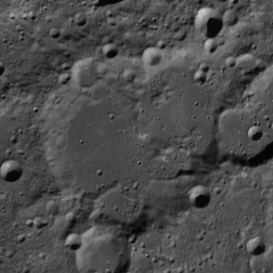 Desargues crater, on the moon. Lunar Reconnaissance Orbiter North Polar mosaic.